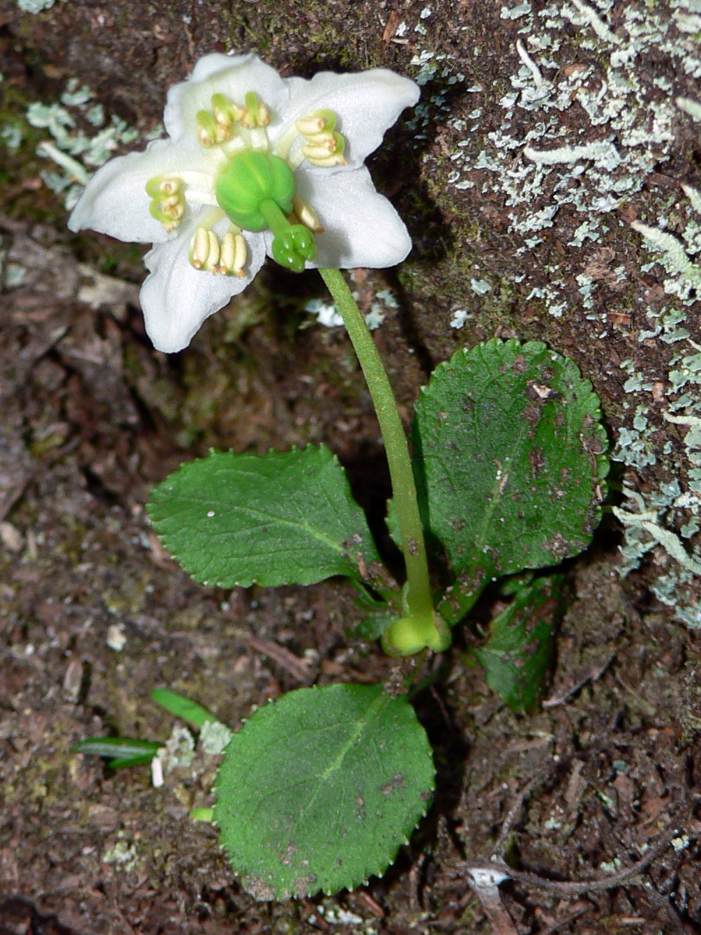 Single Delight